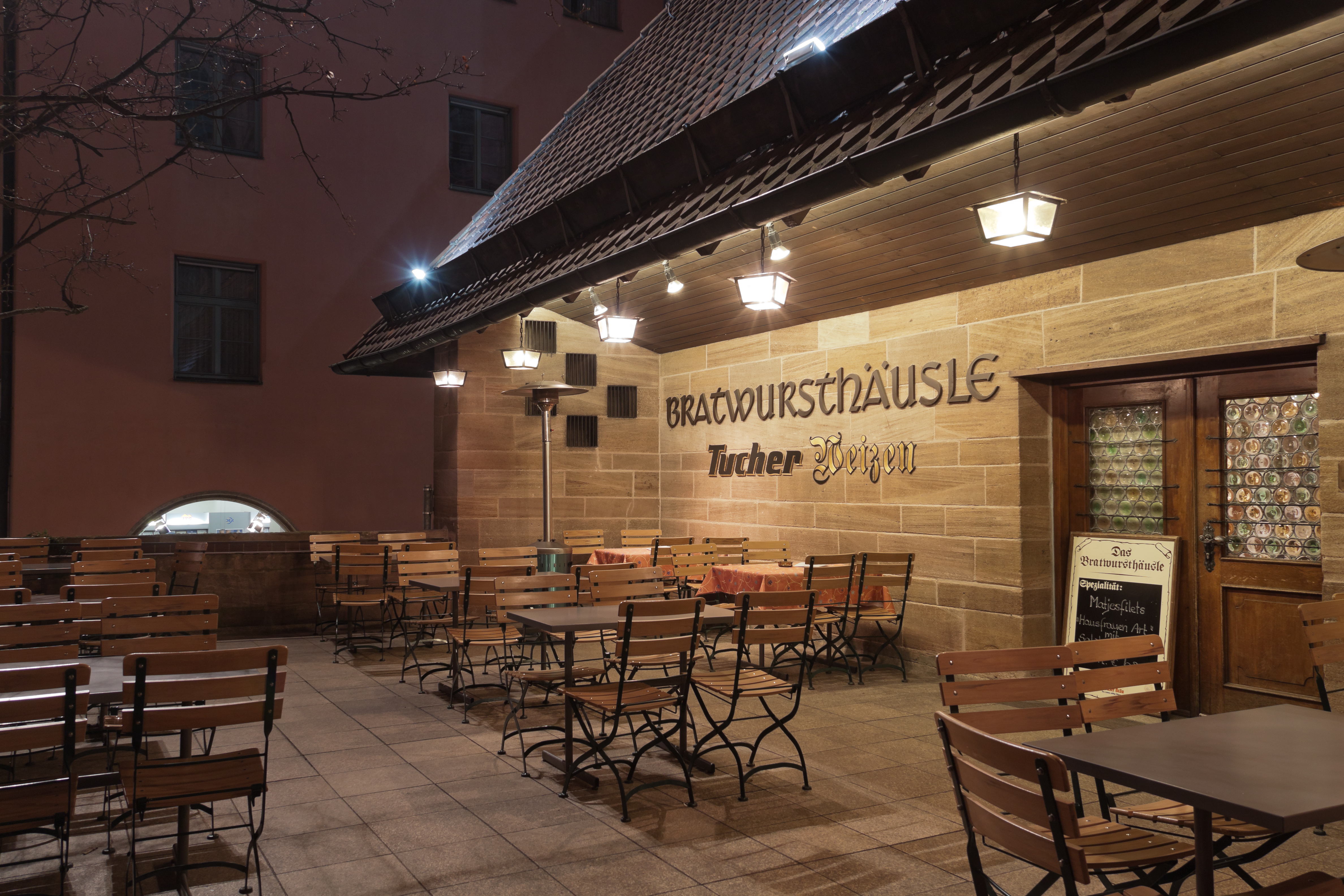 Restaurant "Bratwursthäusle" in the old city center specializing in roasted sausages. Nürnberg, Rathausplatz 1.